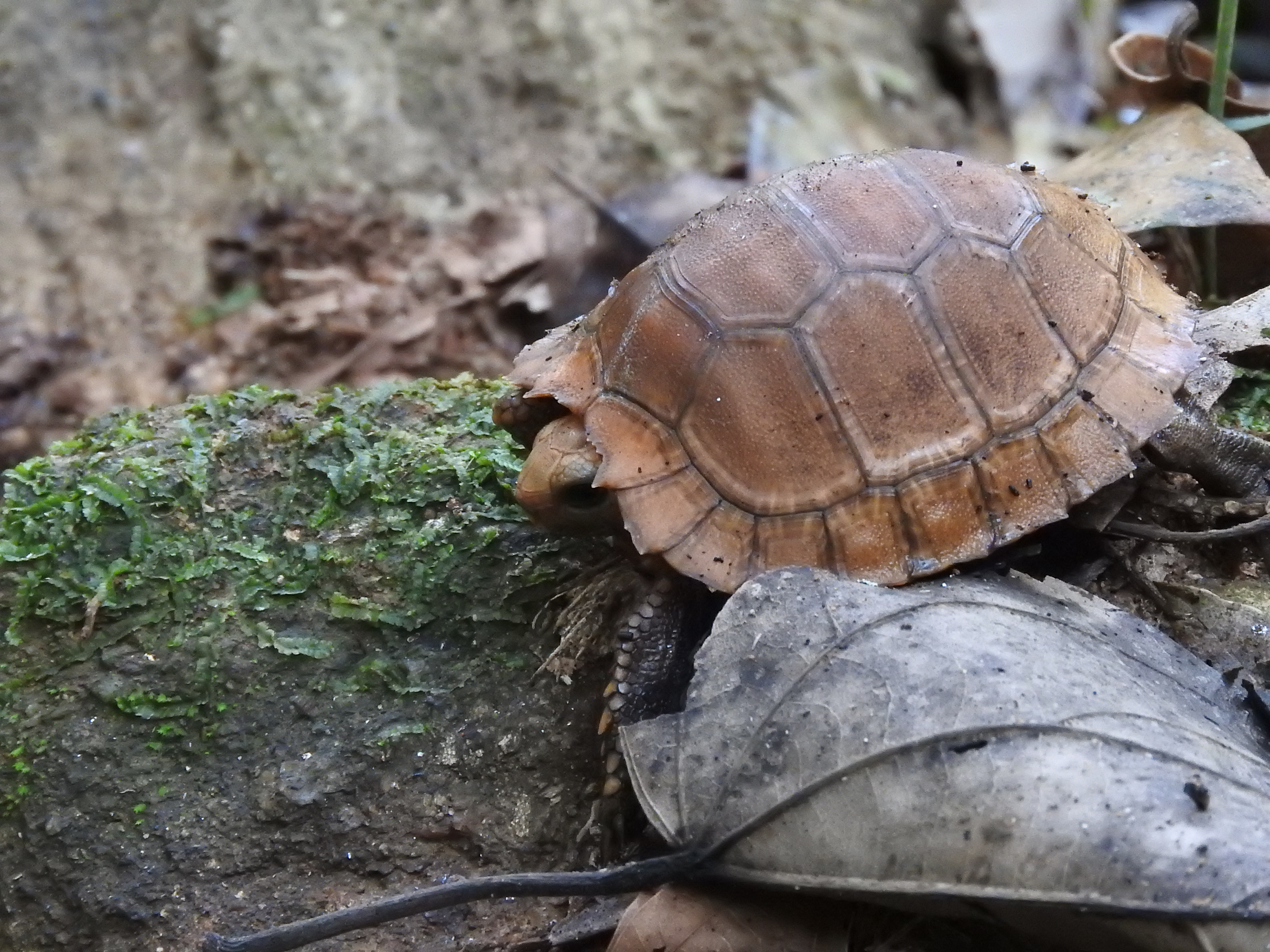 Typically occurs in upland tropical forests where the humidity is high, although sometimes it is also found in drier conditions. It is most active during the early part of the rainy season.